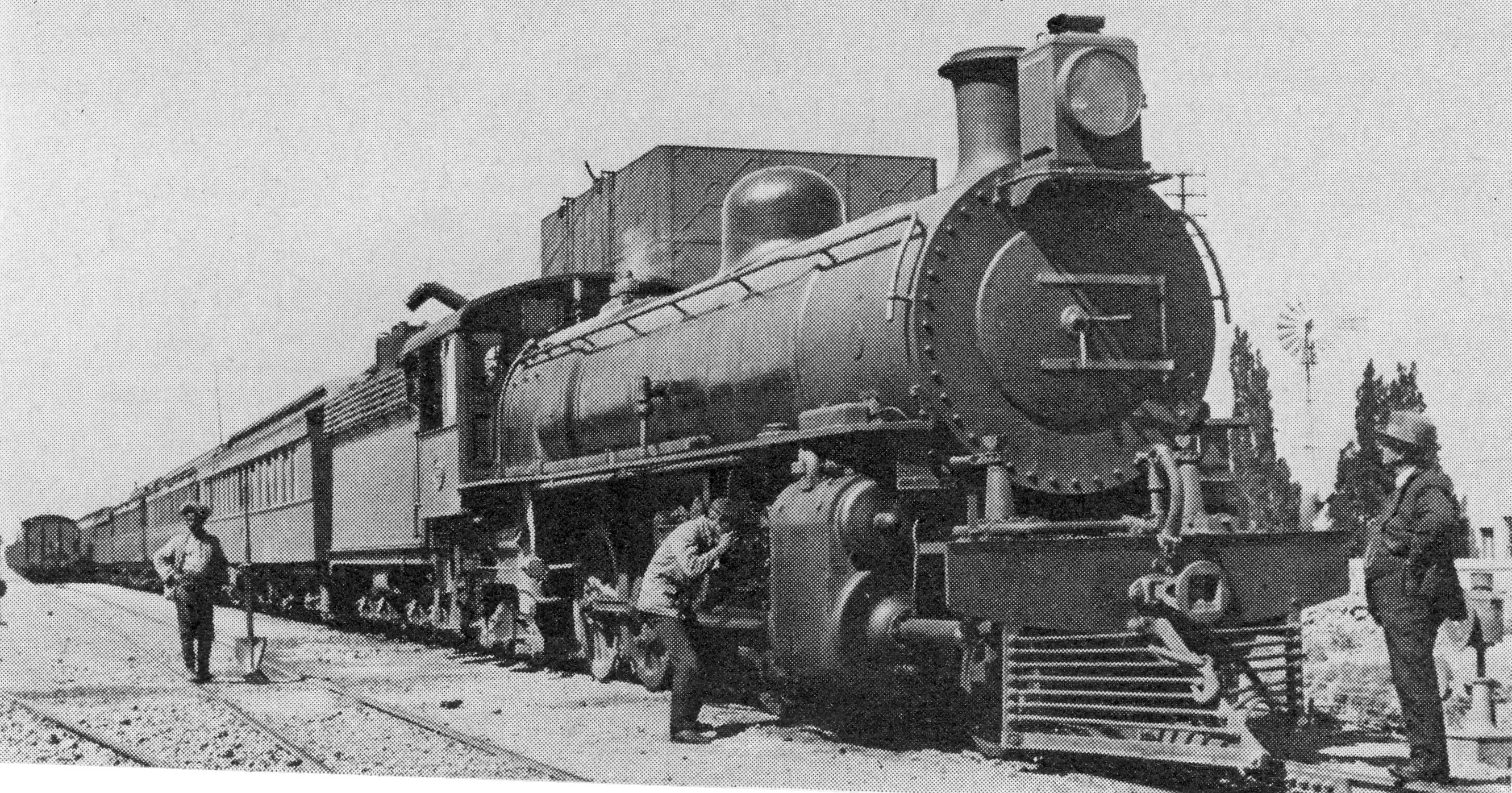 South African Railways Class 4A 1559 (4-8-2) Builder's works number: NBL 20233 Location: Hutchinson